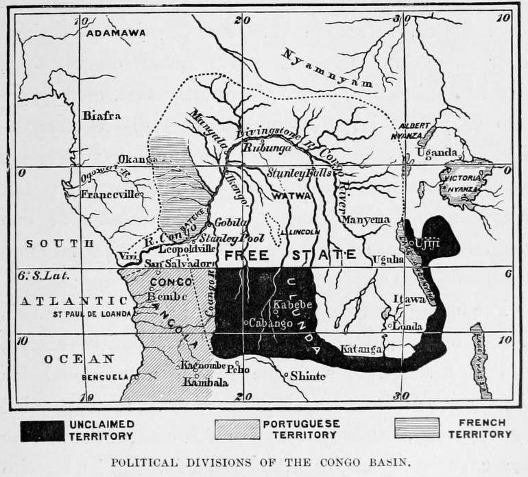 Pictures excerpted from HM Stanley's book "The Congo and the founding of its free state; a story of work and exploration (1885)"